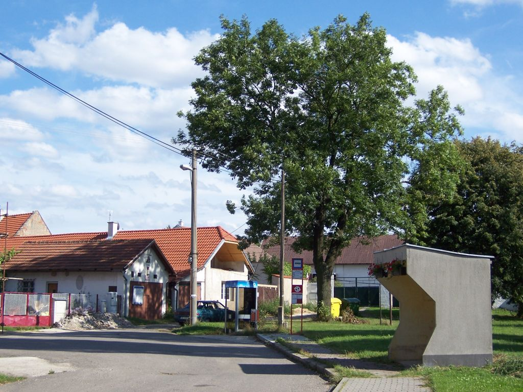 Květnice